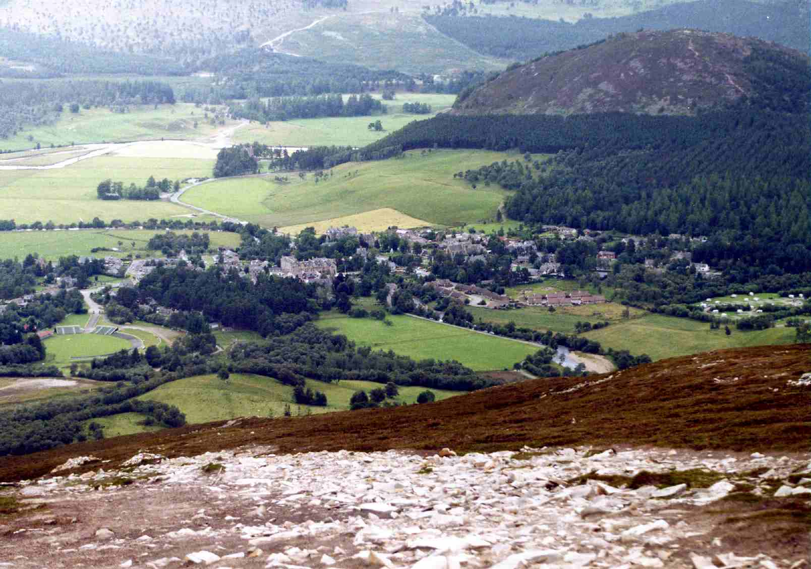 Personal picture taken by Mick Knapton